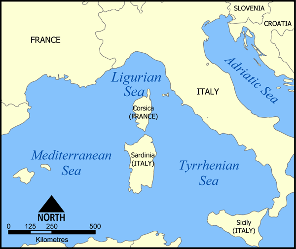 A map showing the location of the Ligurian Sea. Created by NormanEinstein, May 20, 2005.